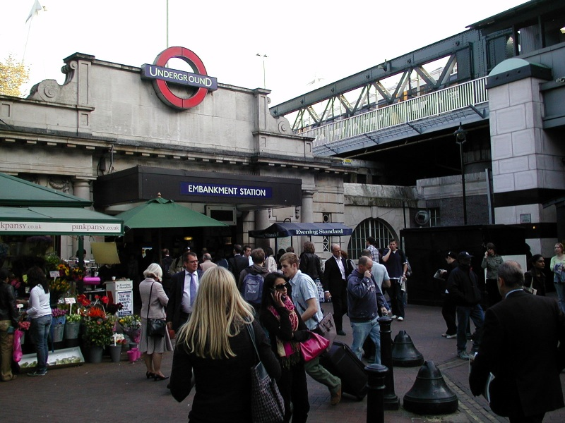 Embankment tube station, 20 April 2007. Photographer James Gibbon